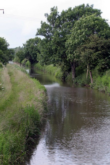 The Chesterfield Canal Looking at the Canal from the overbridge by the Boat Inn at Hayton